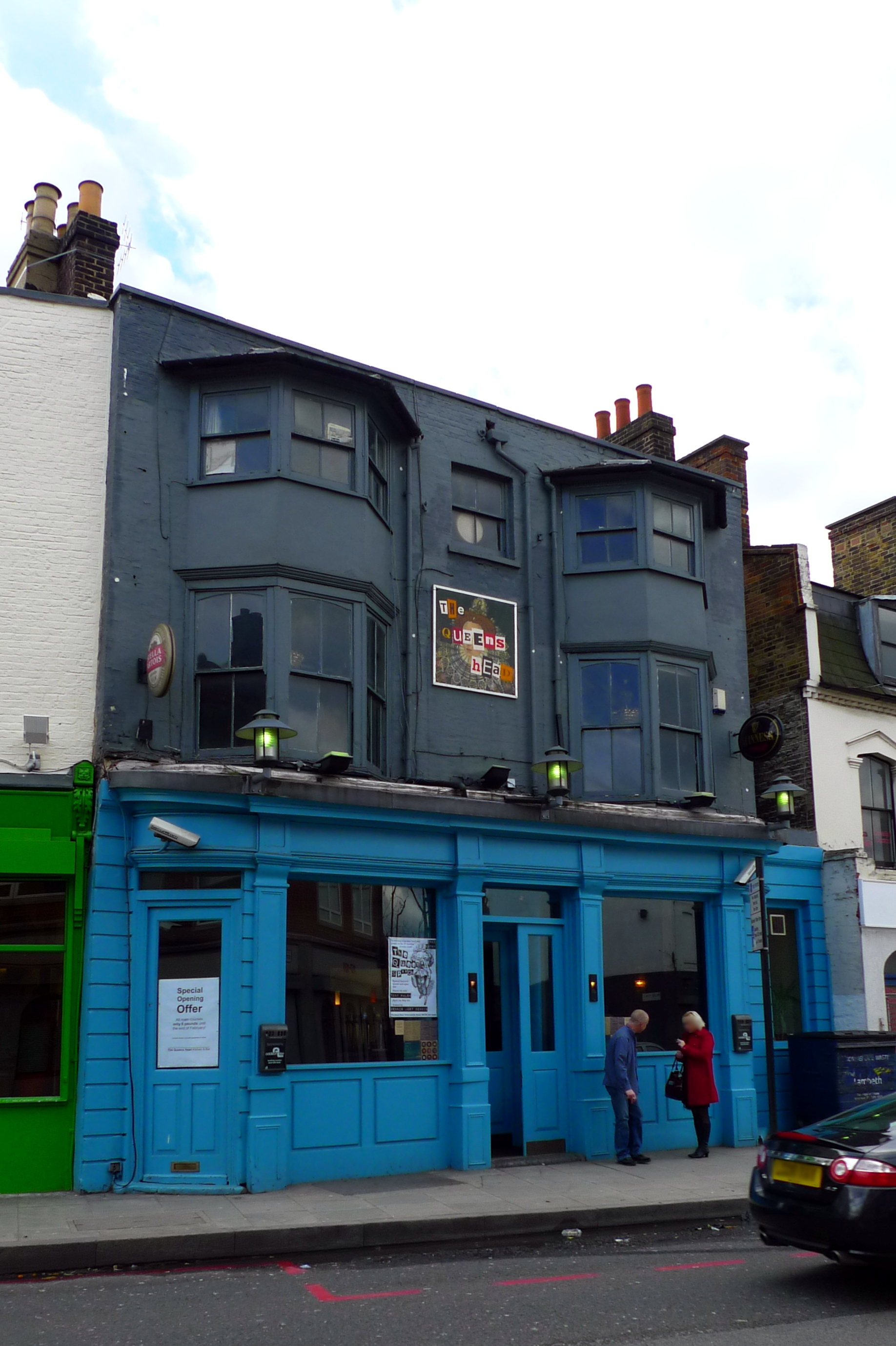 Newly-renamed pub on Stockwell Road. (Photo of it as Far Side.) Address: 144 Stockwell Road. Former Name(s): The Far Side Bar & Kitchen; Zbud Bar; Galleons; The New Queen's Head. Links: Beer in the Evening Beer in the Evening (Far Side) Qype (Far Side)